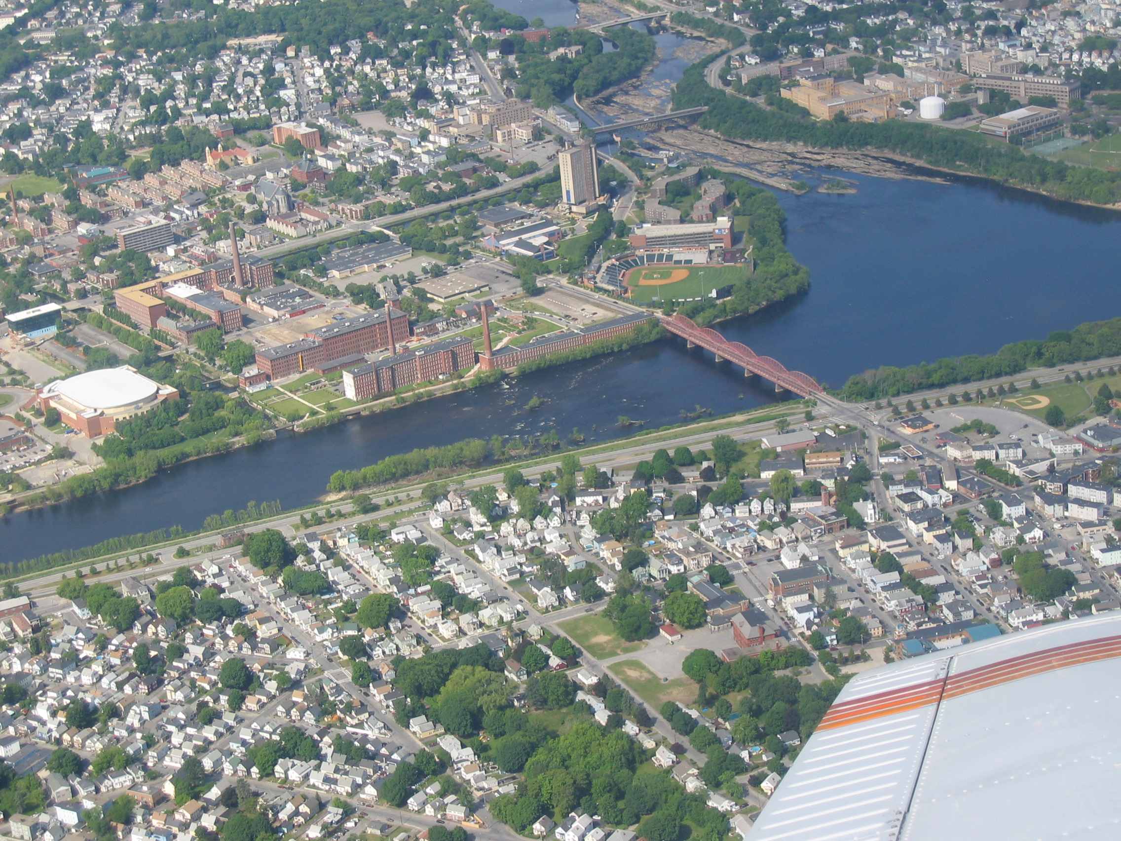 Aerial Views of Lowell, Massachusetts, USA - Centralville and Acre Neighborhoods and Merrimack River